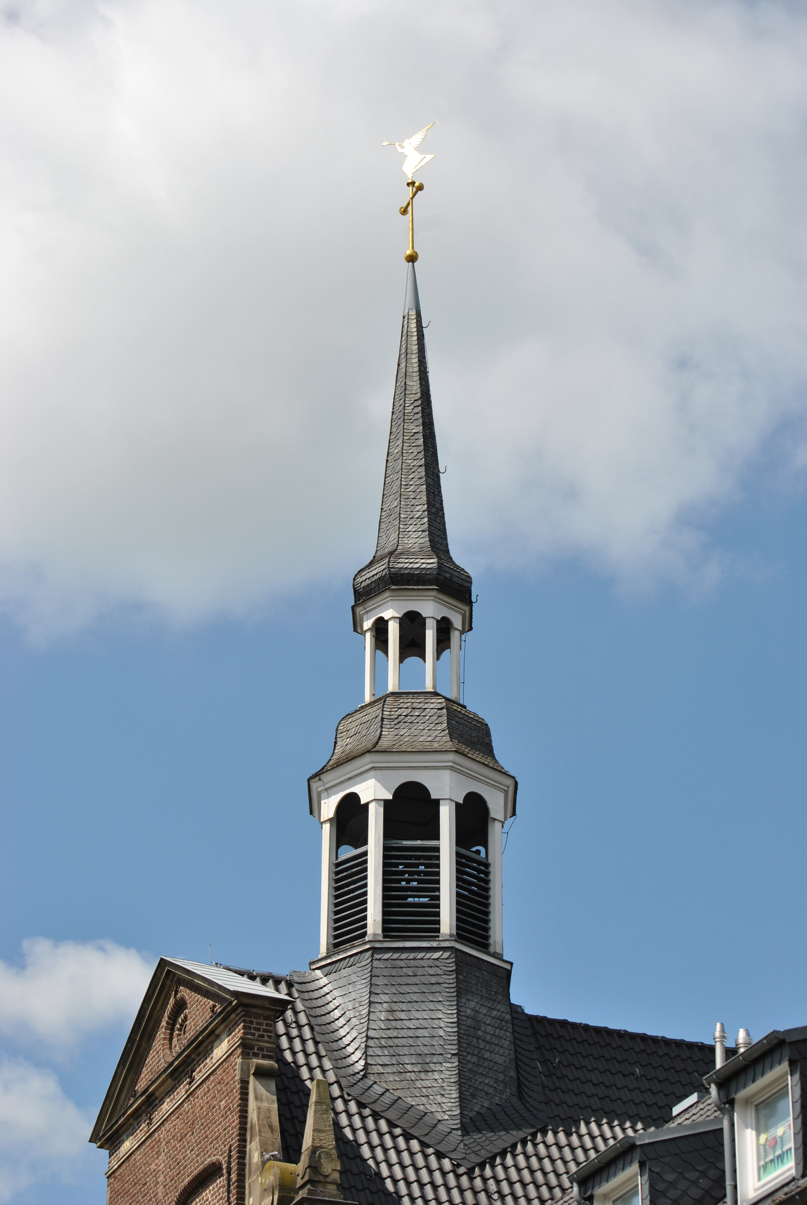 Tower of the Protestant Church in Goch, Germany This image shows a heritage building in Germany, located in the North Rhine-Westphalian city Goch (no. 14). This photograph was taken with a Nikon D3000